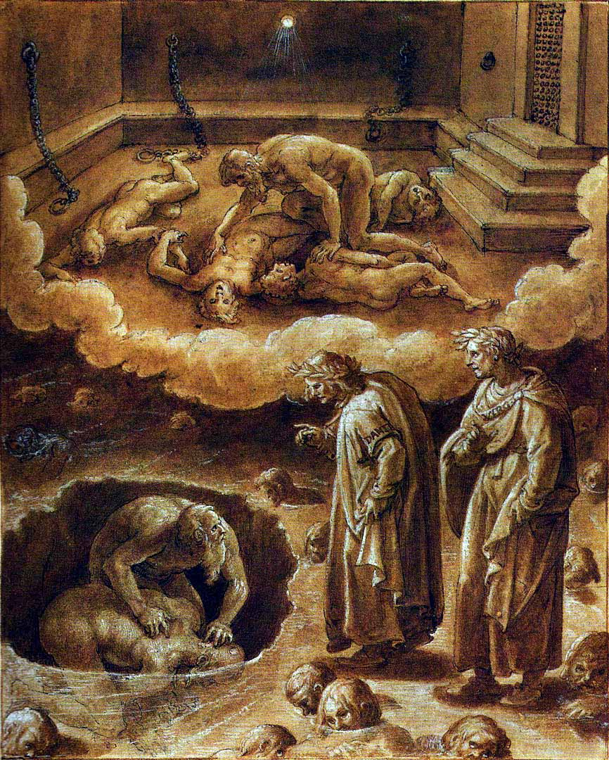 Illustration of Dante's Inferno, Canto 33 (1 of 2)